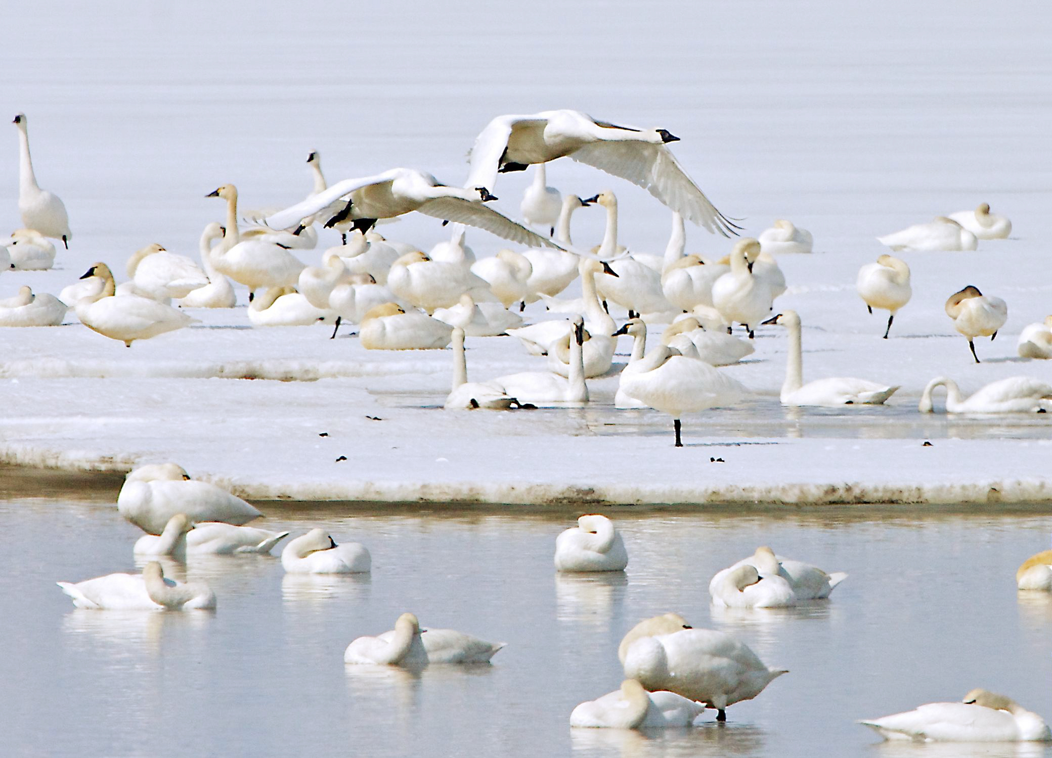 Tundra swans by D Montgomery